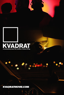 Official Kvadrat film one sheet poster. A background composed of 3 images, first of silhouettes of people dancing in a night-club with a DJ wearing headphones, second of a man reclining in a train compartment bunk, third of a night view from outside a moving car, is overlaid by a white square with the title of the film "Kvadrat" and immediately below "a documentary about the realities of techno DJing". An adress to the film's official web site " is shown in the bottom left corner.